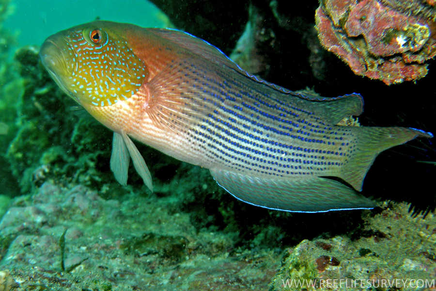 A Lined Dottyback, Labracinus lineatus, at the Abrolhos Islands, Western Australia.